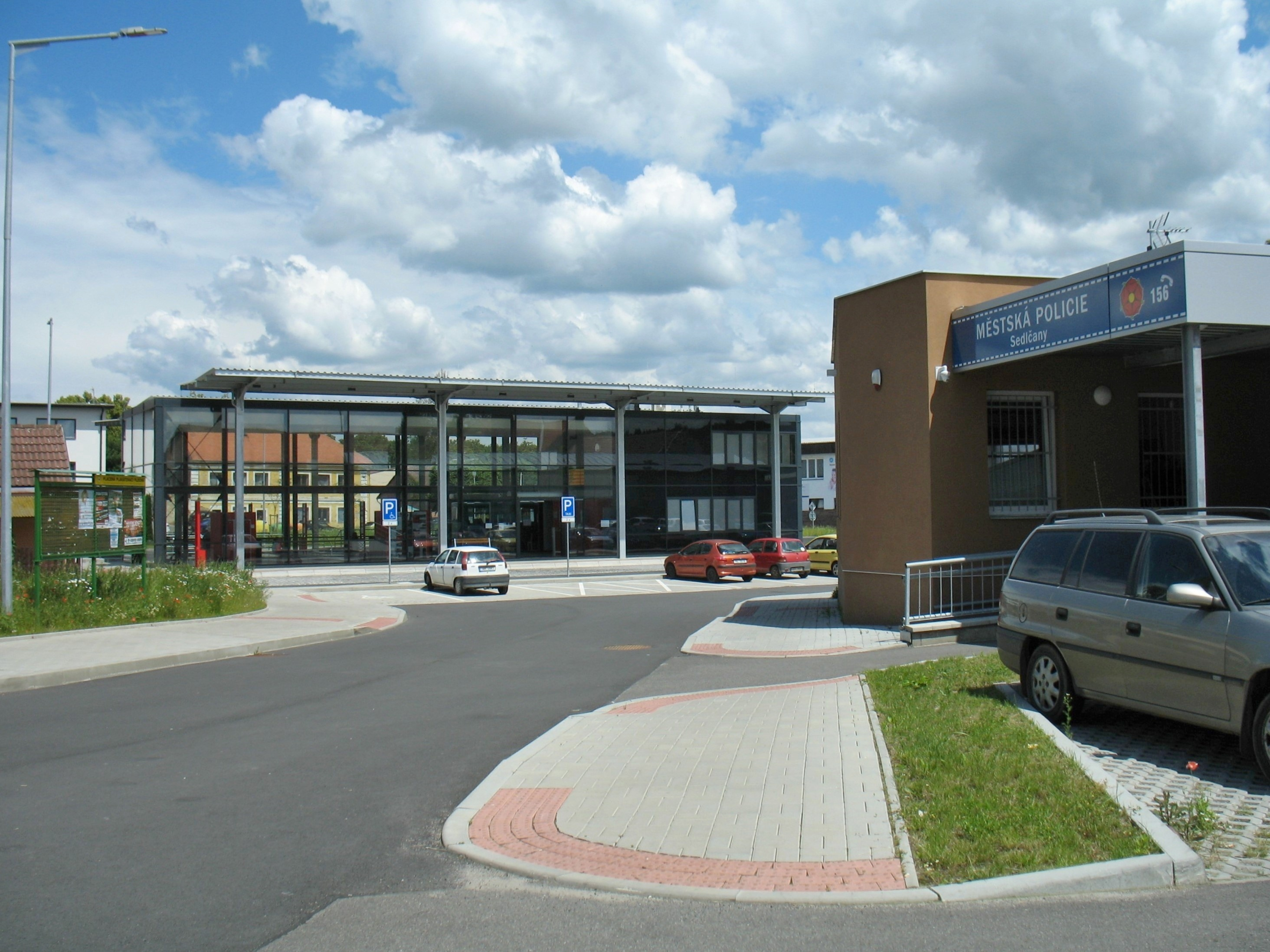 New bus station in Sedlčany (opened 4. 12. 2019), Příbram District